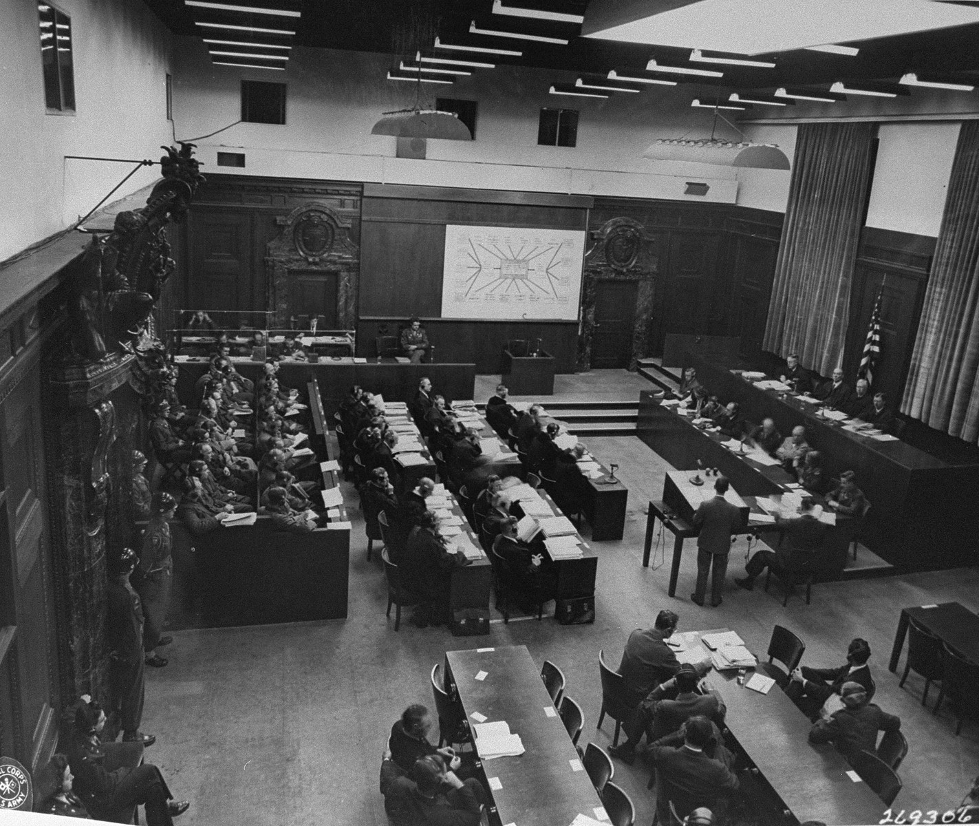 Shows judges defendents and court staff